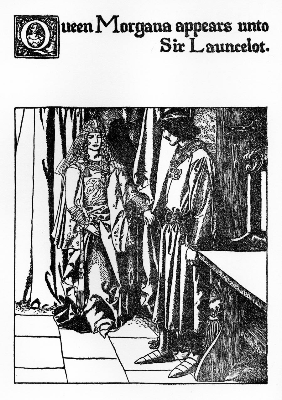 Queen Morgana Appears unto Sir Launcelot, by Howard Pyle from The Story of the Champions of the Round Table (P. 34) - 1905.